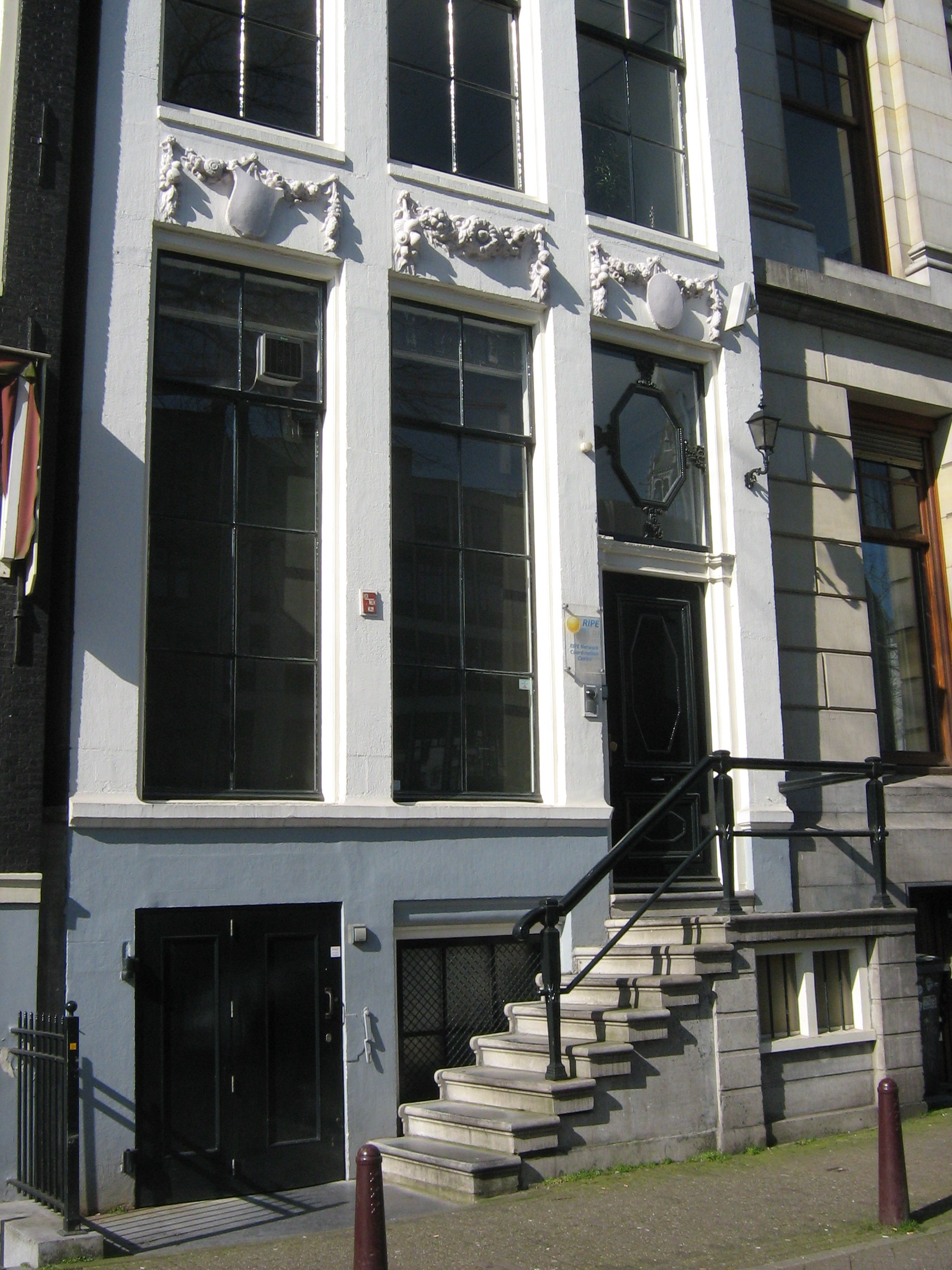 Office of internet-related organization RIPE at 258 Singel in Amsterdam, seen from the southeast. The building is a national monument, registered under number 5326.